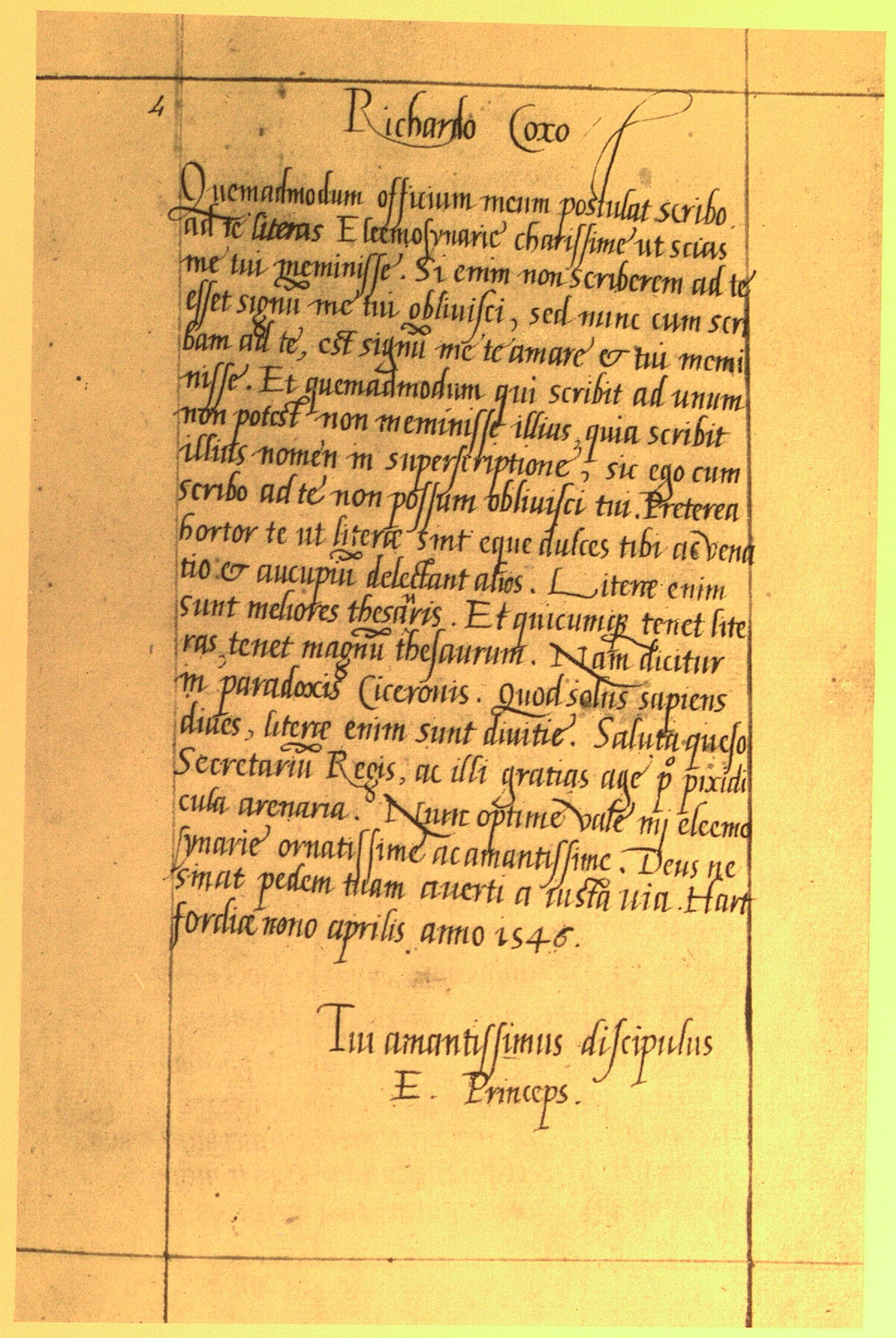 A Latin letter of Edward, the future King Edward VI of England, to his tutor Richard Cox (autograph copy in a book). London, British Library, Harley 5087, fol. 2r.